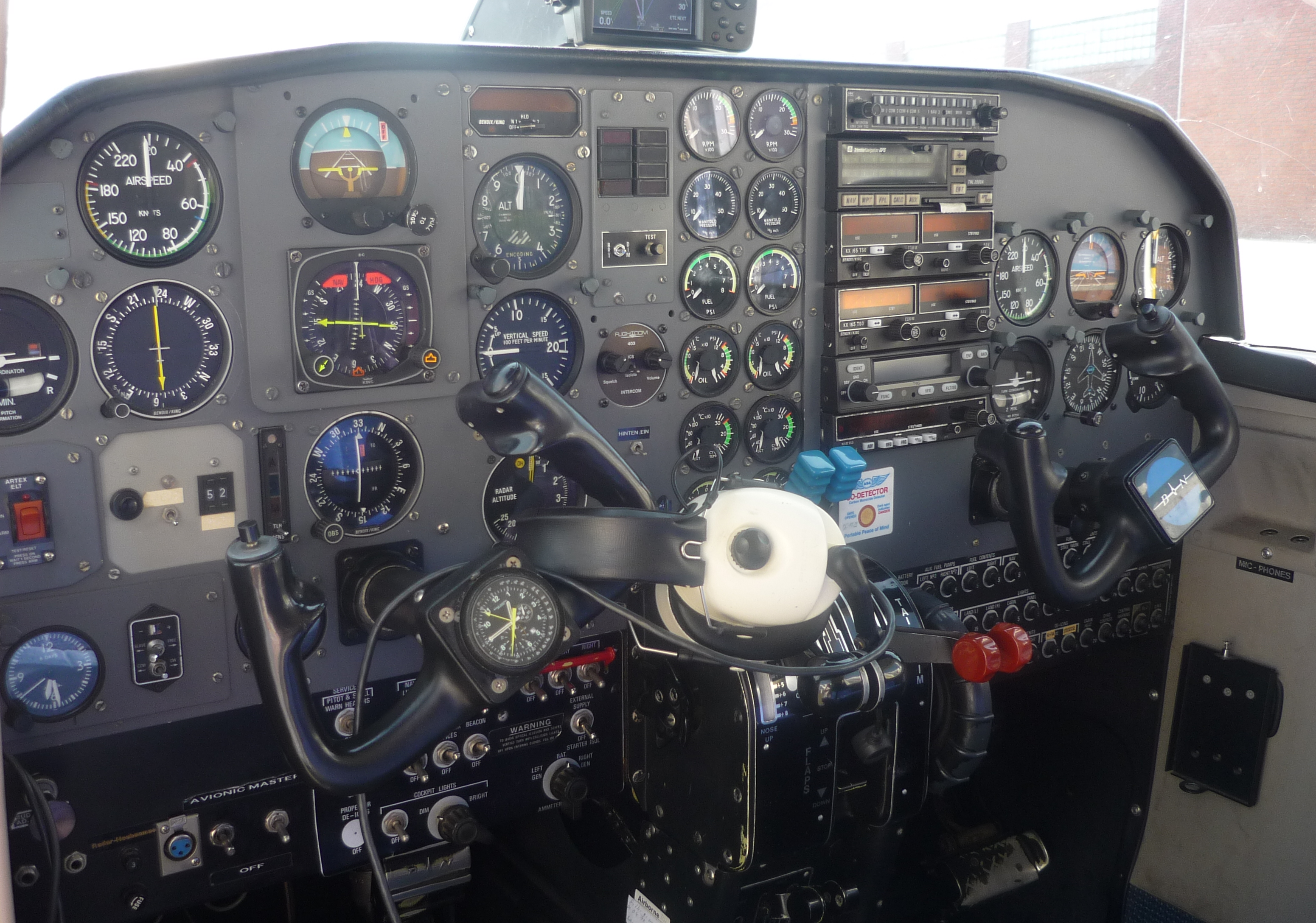 Cockpit of D-IFLA